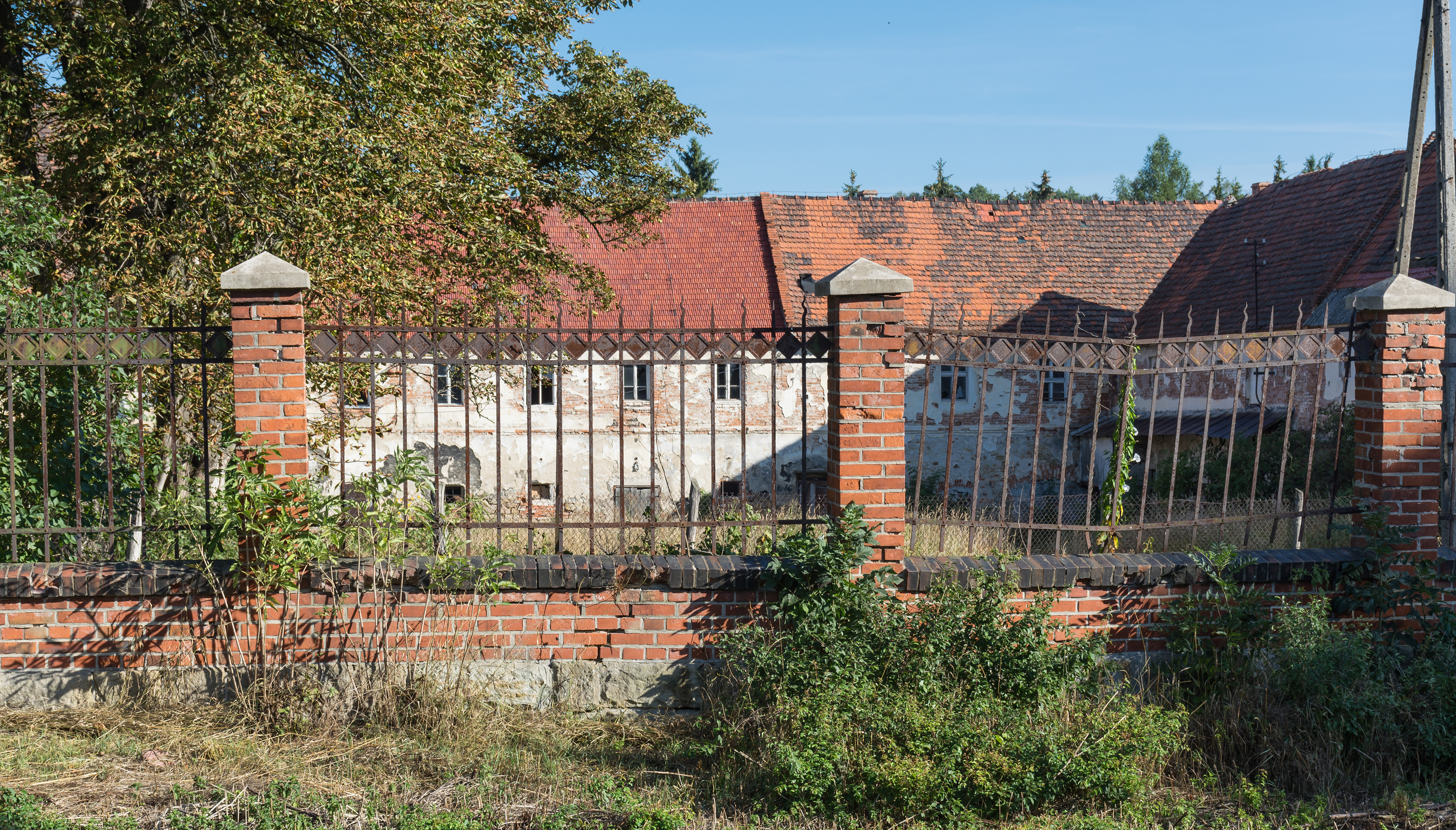 Manor in Stary Wielisław, fence